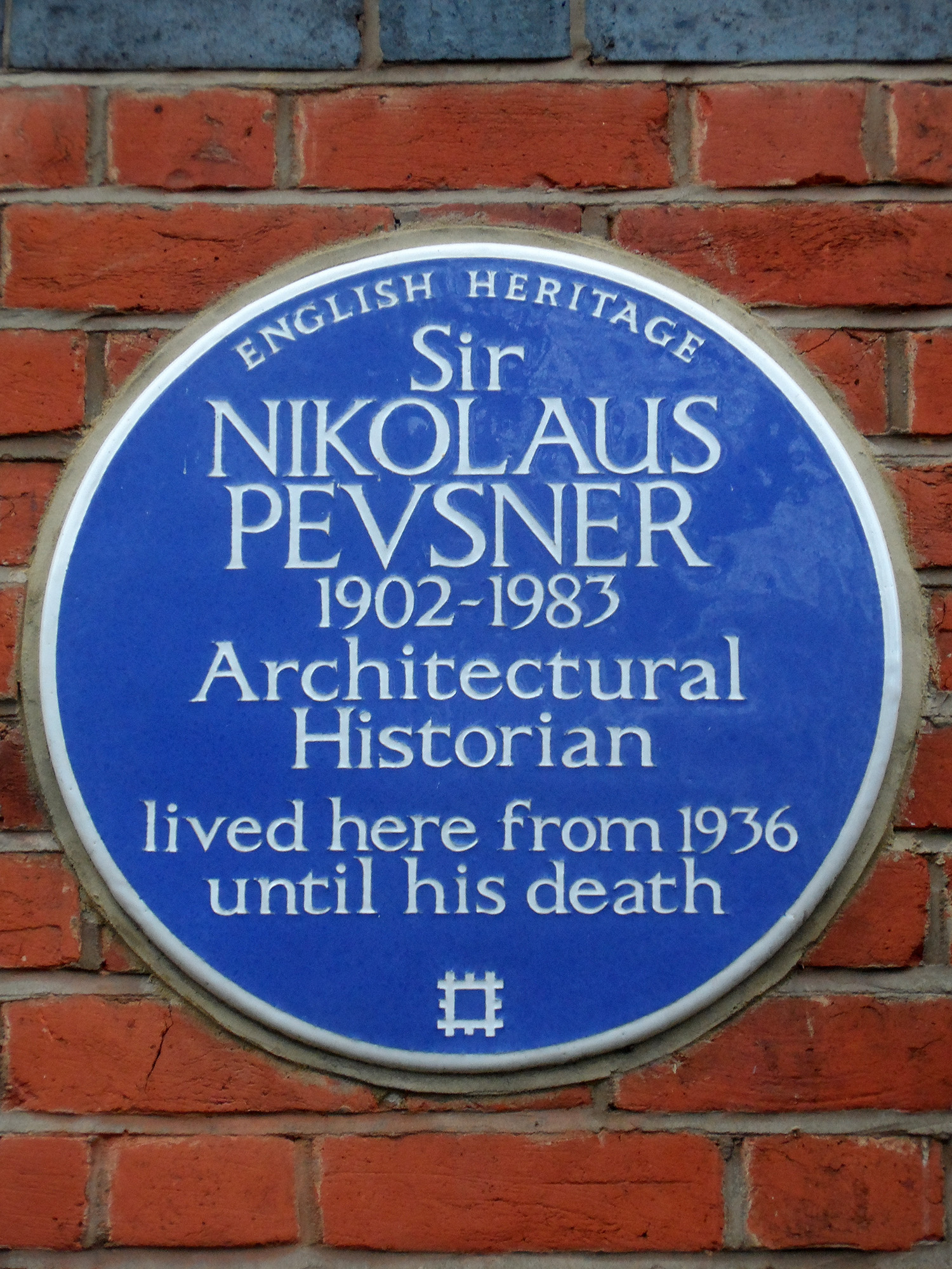 Blue plaque erected in 2007 by English Heritage at 2 Wildwood Terrace, Hampstead, London NW3 7HT